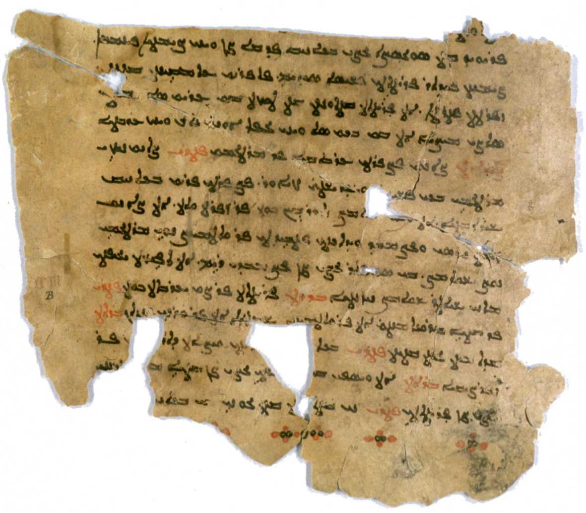 Here shows the bottom half of a page (n 493 recto) in slightly modified Syriac script (Estrangelo) and Christian Sogdian language. The text, a translation from an identified Syriac original, contains a dialogue between a younger monk who poses questions and an older monk who gives answers; it belongs to the Apophthegmata Patrum. The speakers are indicated in the text by the words written in red ptry (›father‹ for the older monk) and br’t (›brother‹ for the younger monk). The page belongs to the large Sogdian codex C 2 and was edited by N. Sims-Williams (BTT XII: Folio 61 R on p. 129).